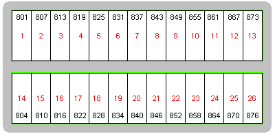 Adapted from Wikipedia's File:City block.PNG, for enhance inner lot-blocks